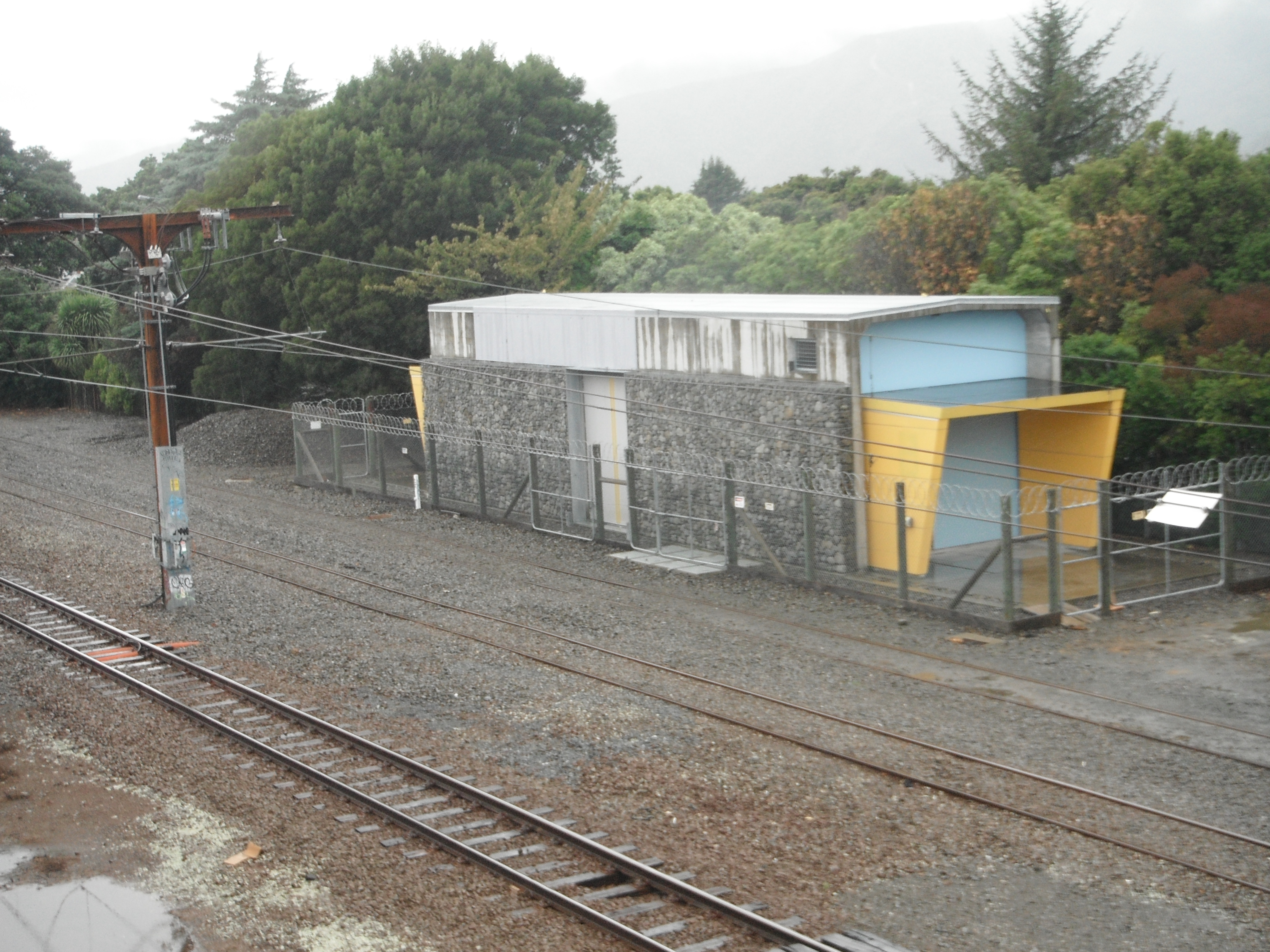 The railway traction substation at Woburn railway station in Lower Hutt, New Zealand. This substation was built c.2009-10 and converts 11,000-volt 50Hz AC power from Wellington Electriciy's local distribution network to 1500/1600-volt DC to supply the Wellington electrified railway lines. The connection to the down main and loop overheads can been seen to the left.